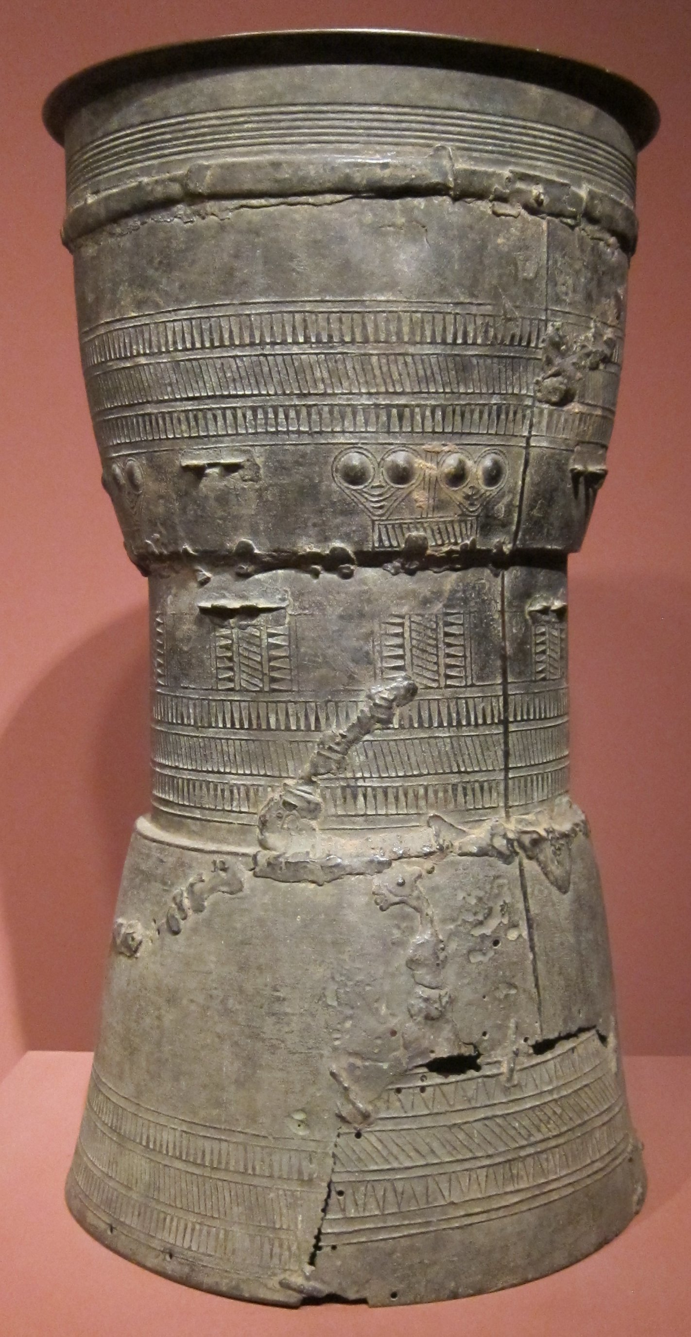 Drum (Mokko Pung Jawa Nura) Pantar, 3rd-2nd century BCE Bronze Honolulu Museum of Art Gift of The Christensen Fund, 2001 (10208.1)